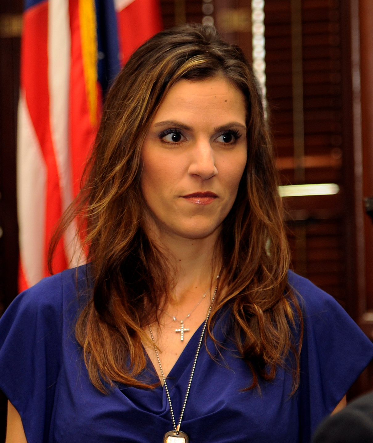 Taya Kyle, wife of slain Navy SEAL Chris Kyle, following the signing of Senate Bill 162 at the Texas State Capitol, in Austin, Texas, Aug. 28, 2013. Senate Bill 162 has been called the "Chris Kyle Bill" because it recognizes the achievements of service members with special operations training, by allowing them credit toward state law enforcement licenses.